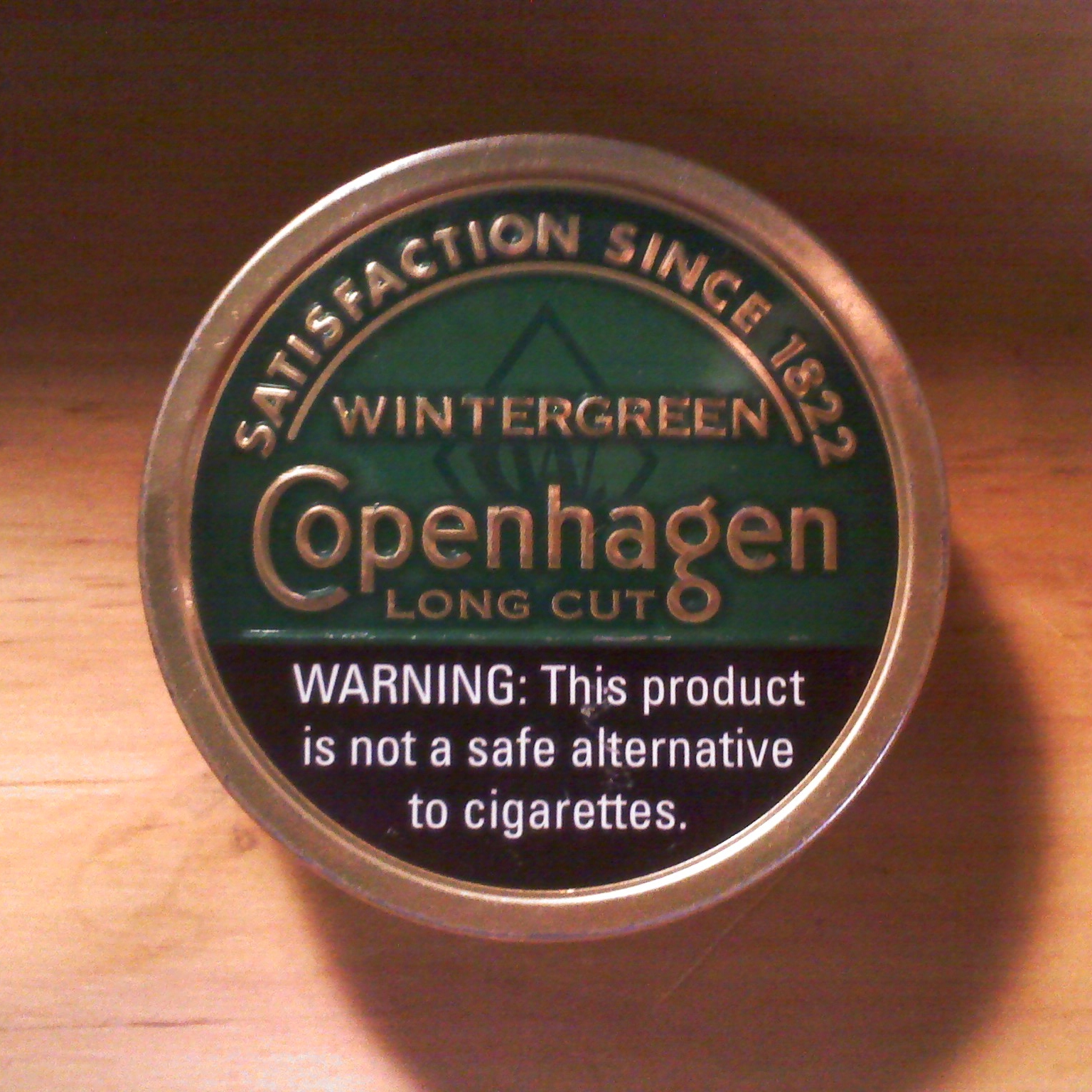 Photo of a can of Copenhagen Wintergreen Long Cut Dipping Tobacco, taken 2010-12-16